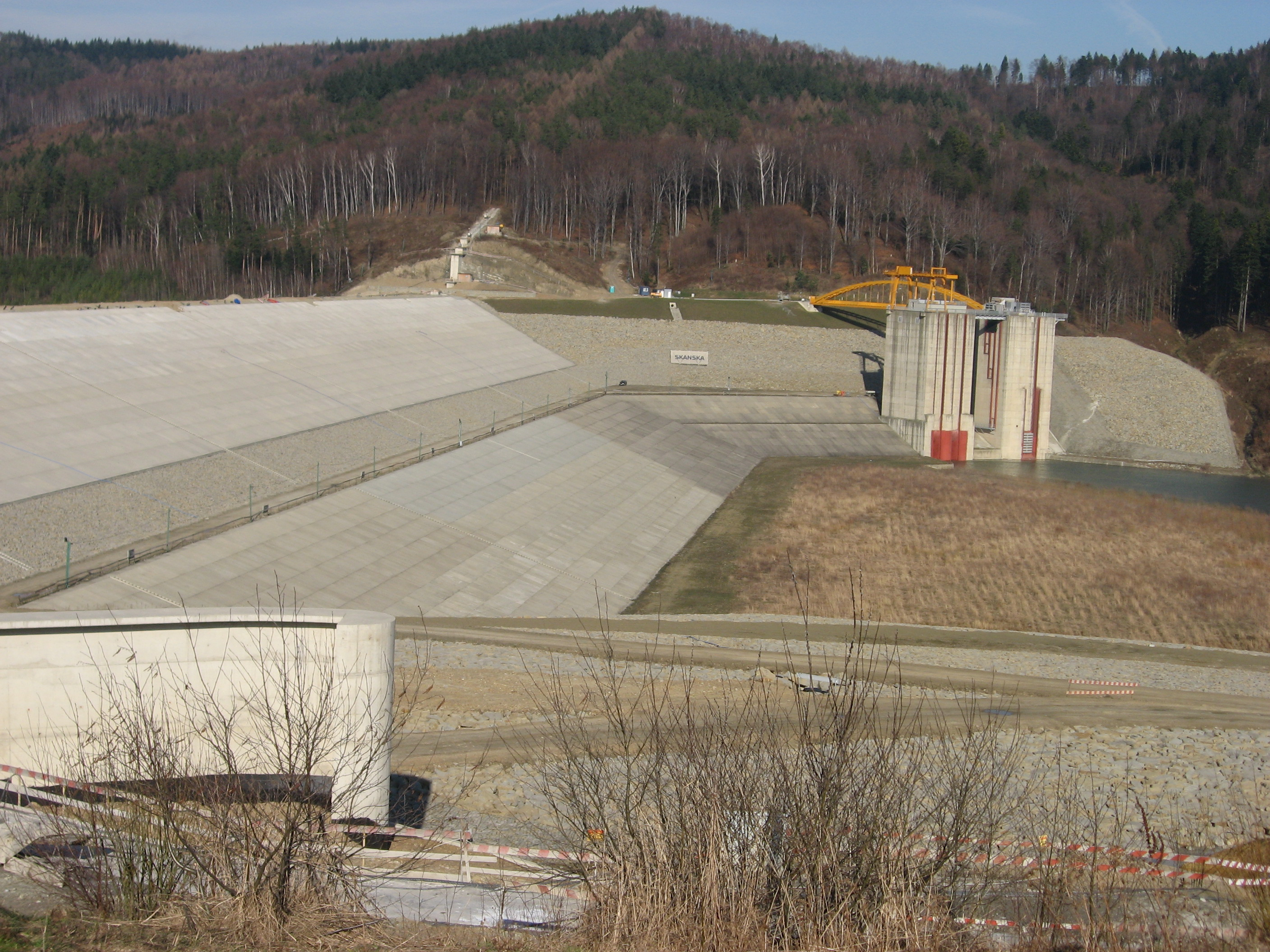 Swinna Poreba Dam